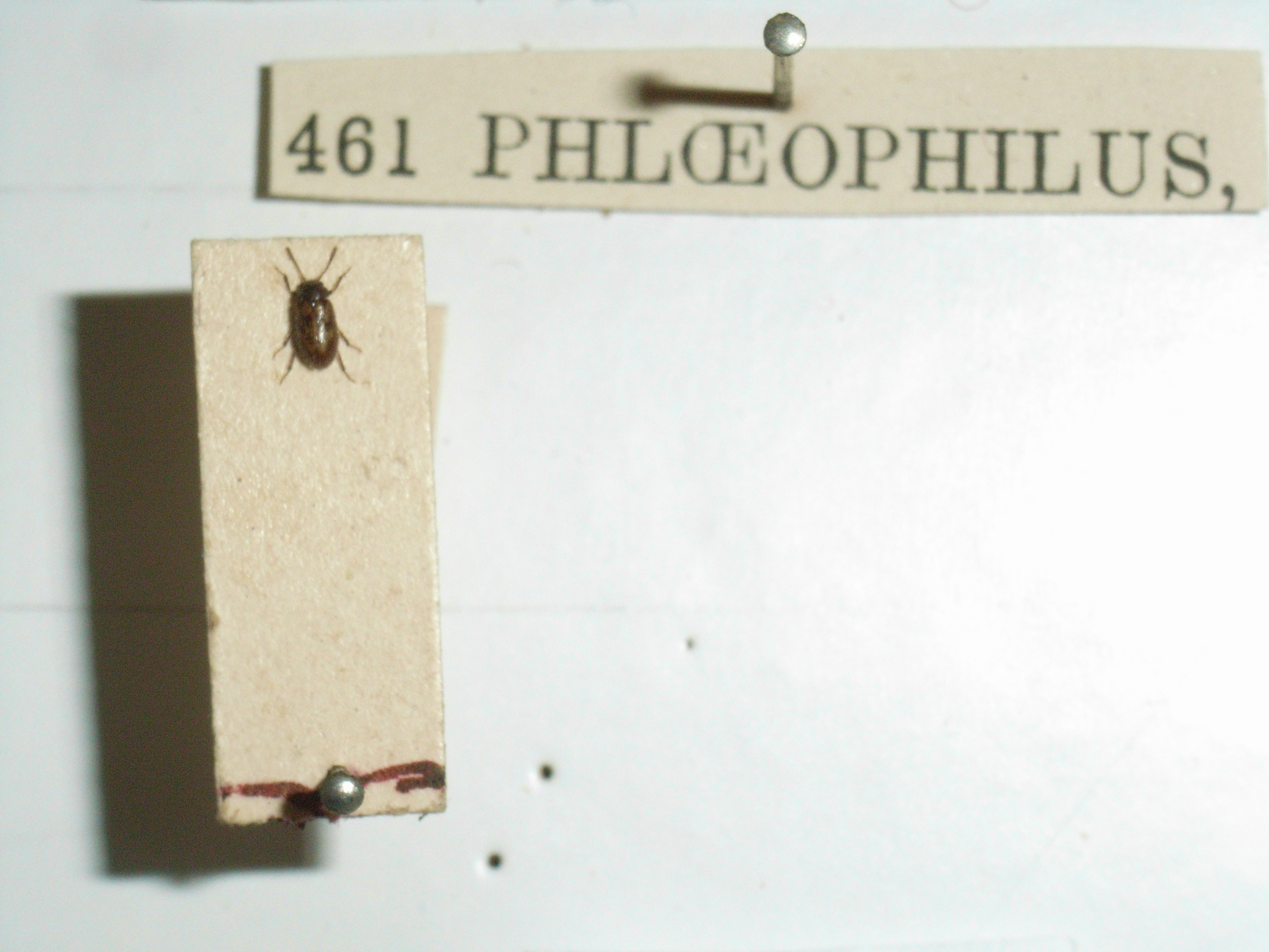 Phloeophilus Schoenherr, 1833